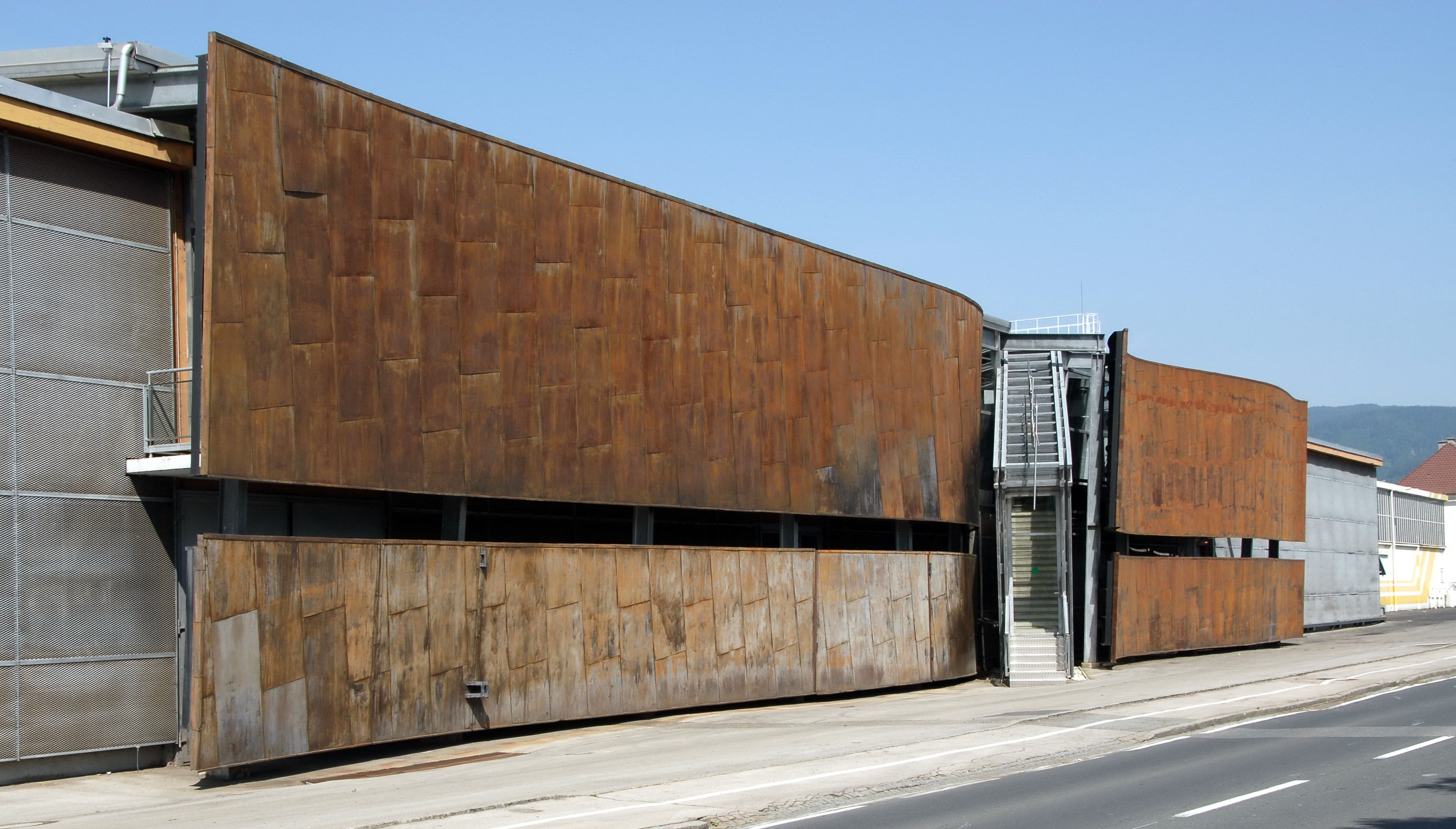 FUNDERMAX facility-#2 at Glandorf in the community of Saint Veit on the Glan, Carinthia, Austria